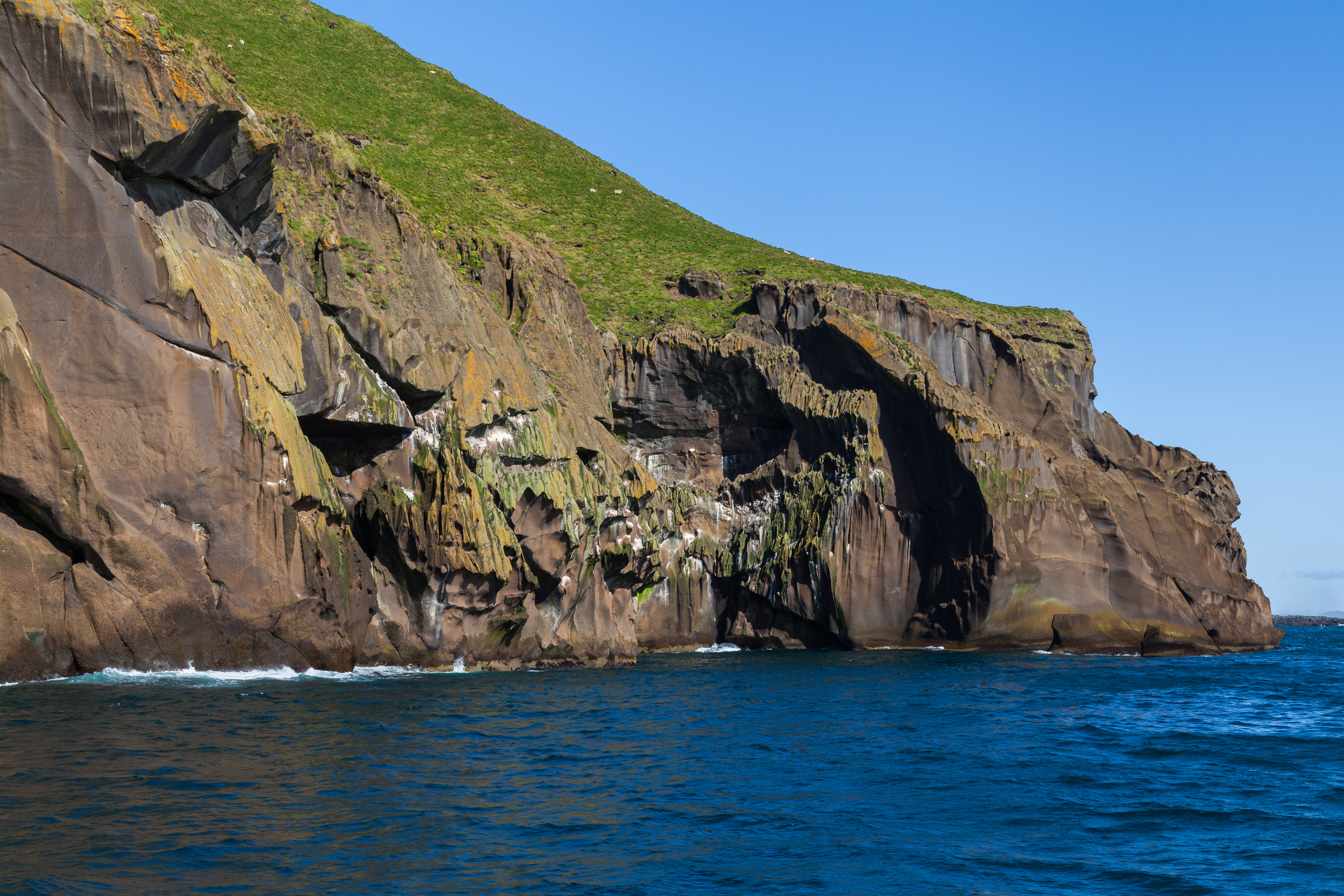 Cliffs of Heimaey, Westman Islands, Suðurland, Iceland